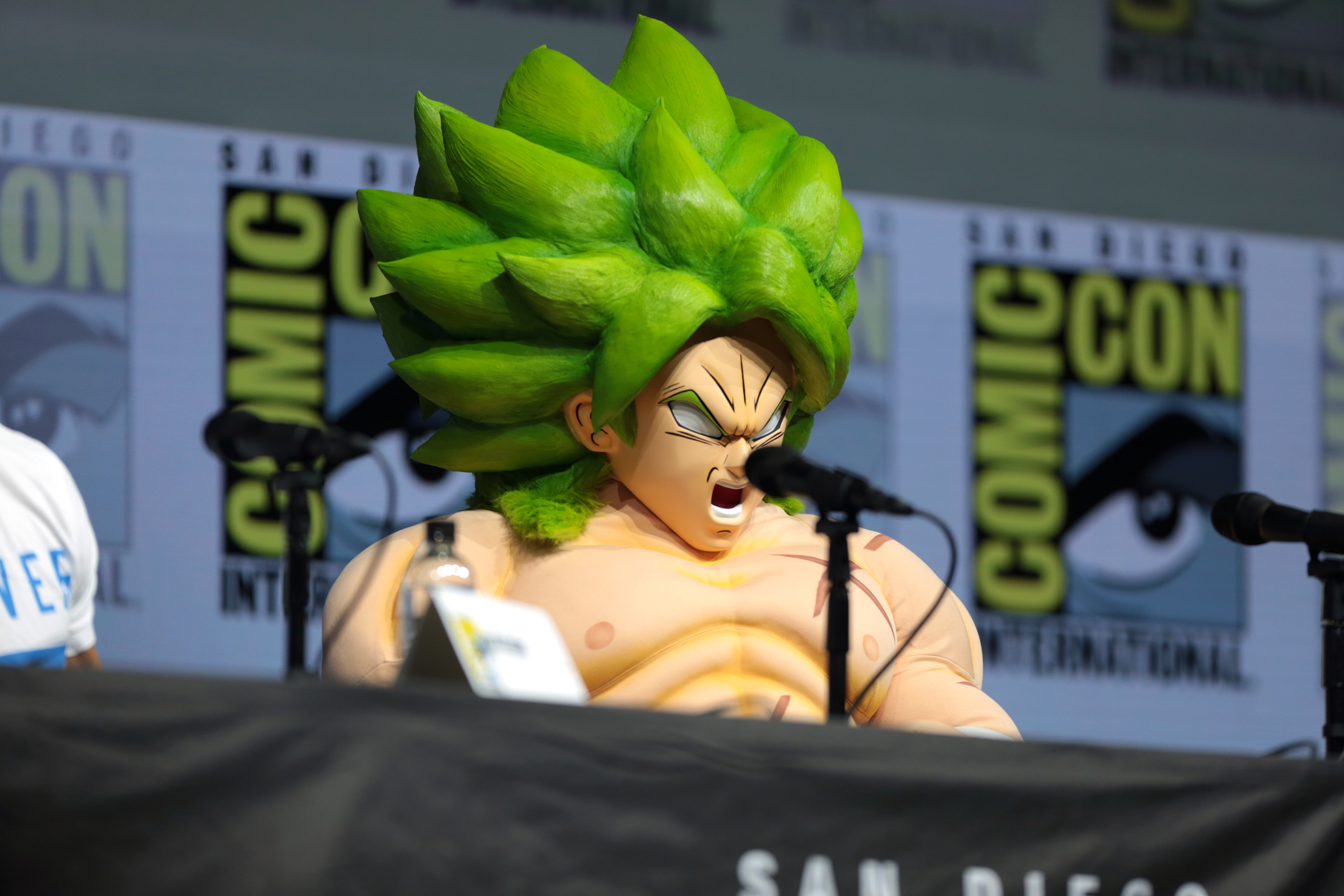 Broly cosplayer at the 2018 San Diego Comic Con International, for "Dragon Ball Super", at the San Diego Convention Center in San Diego, California.